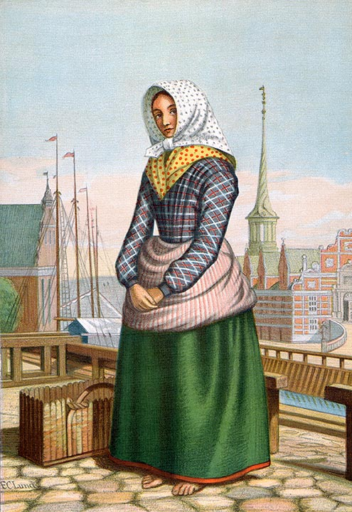 "En Pige fra Skovshoved" (A Young Girl from Skovshoved), lithograph by Danish artist as a illustration of a Danish national costume from "Danske Nationaldragter" (1864).